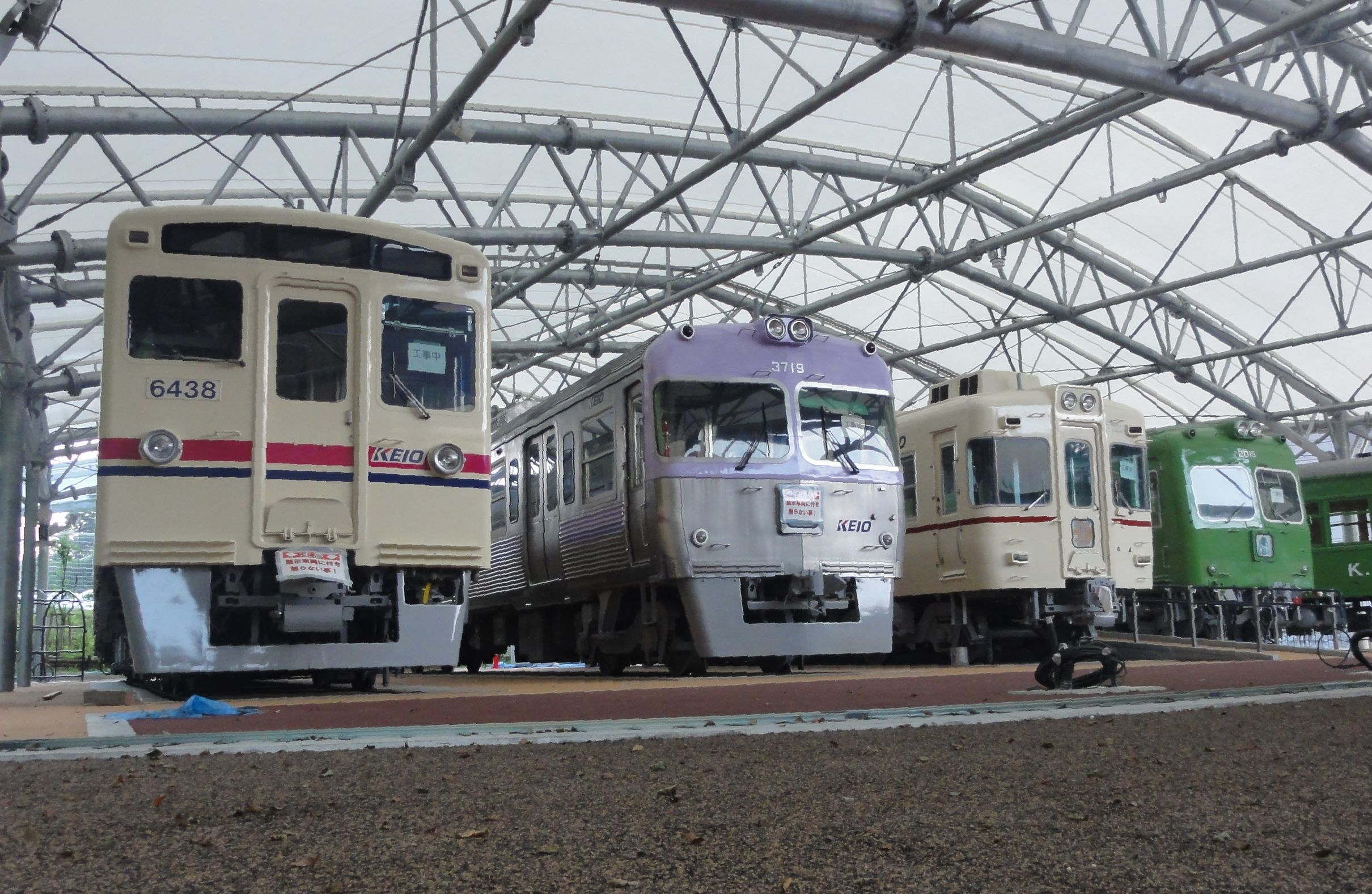 Exhibits at Keio Rail-Land (left to right: Keio 6000 series, 3000 series, 5000 series, 2000 series)